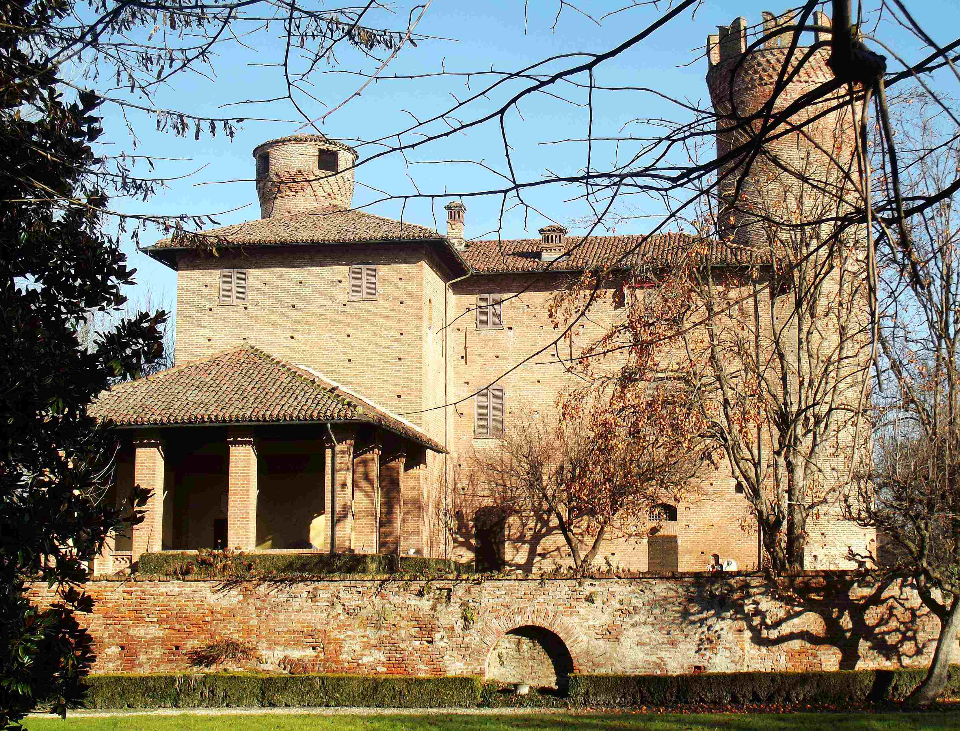 Faule (CN, Italy): the castle